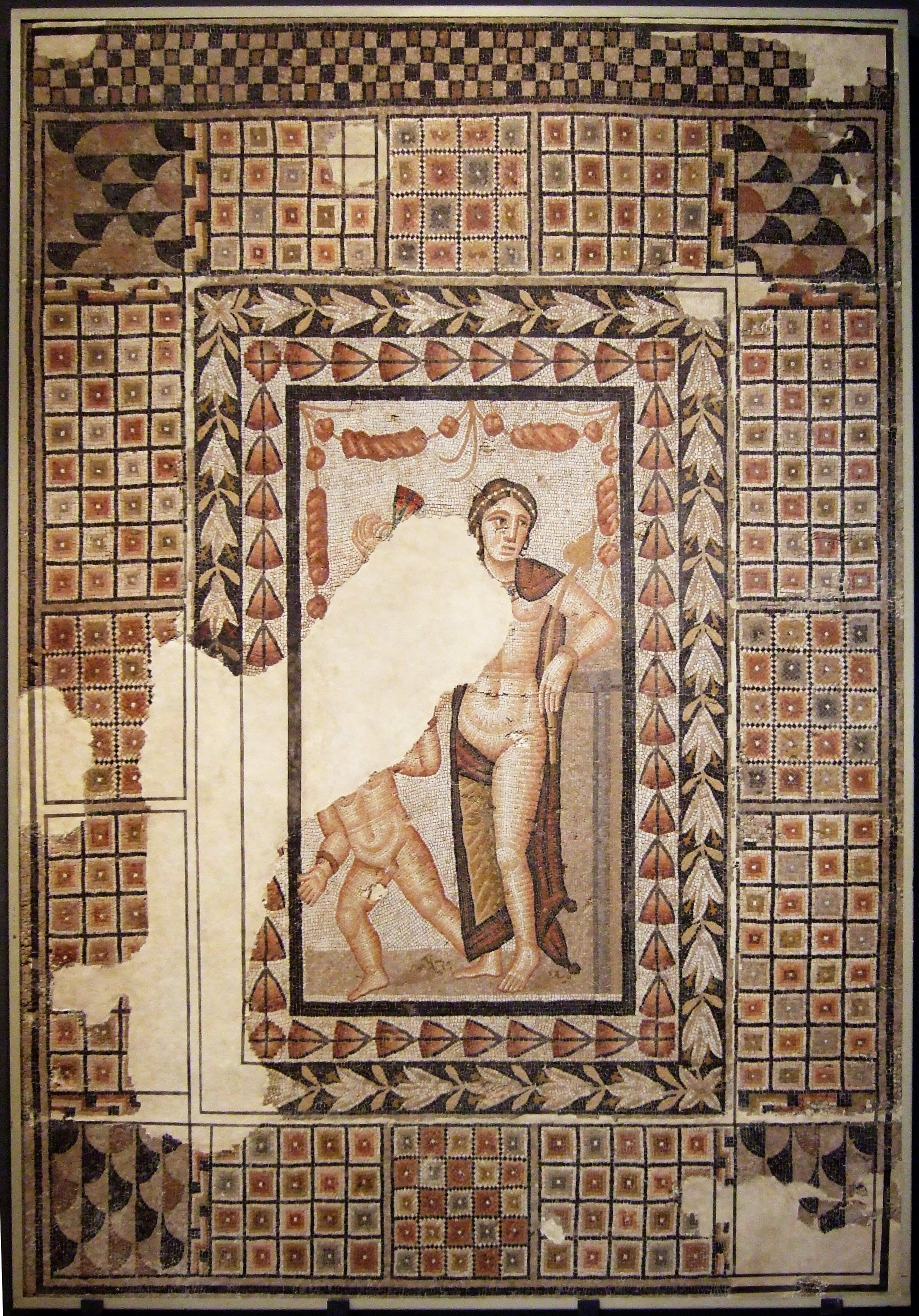 Venus and Eros (2nd half of 4th c AC). Villa Fortunatus. Mosaic